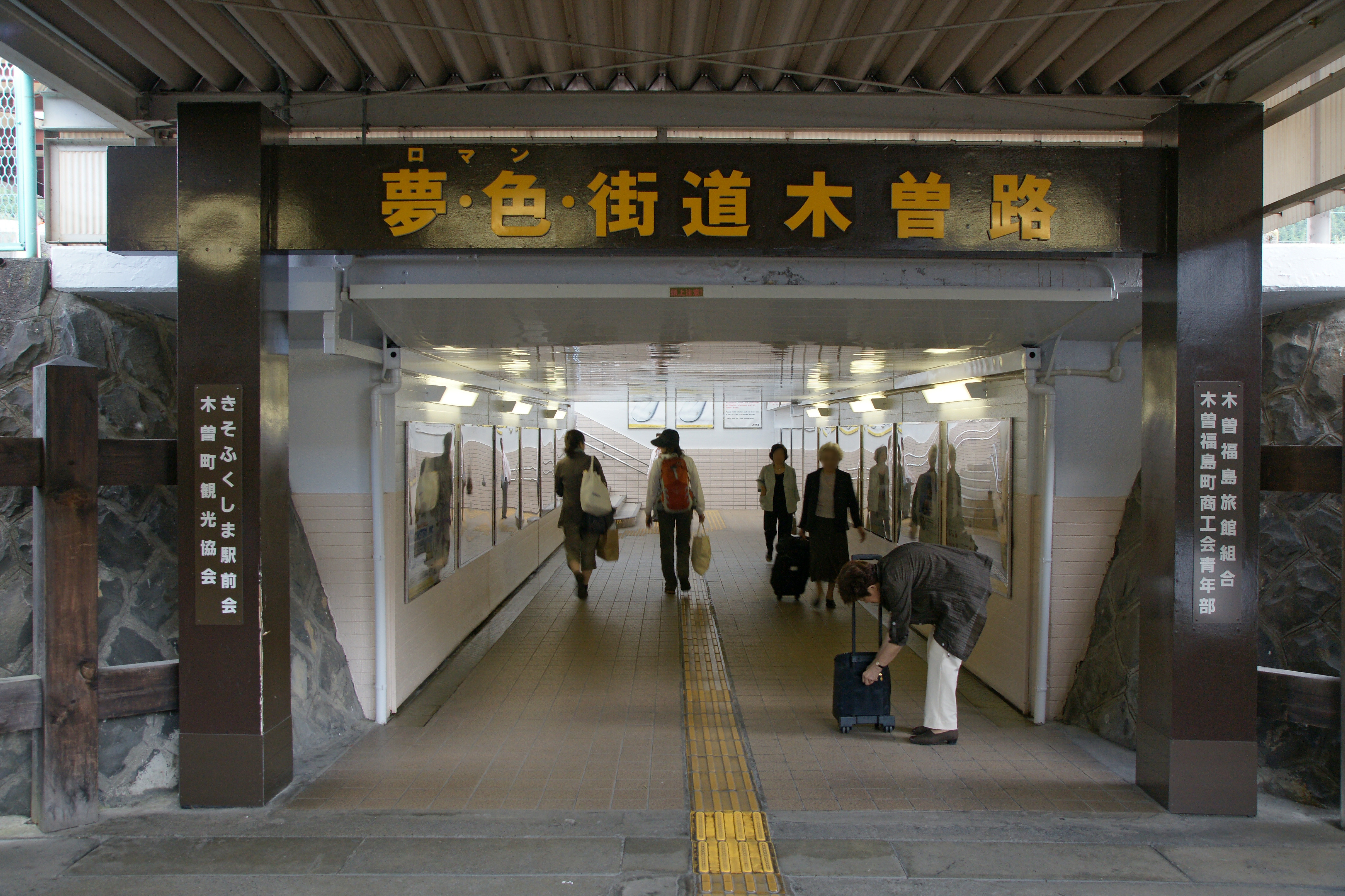 Kiso-fukushima Station, Kiso, Nagano prefecture, Japan